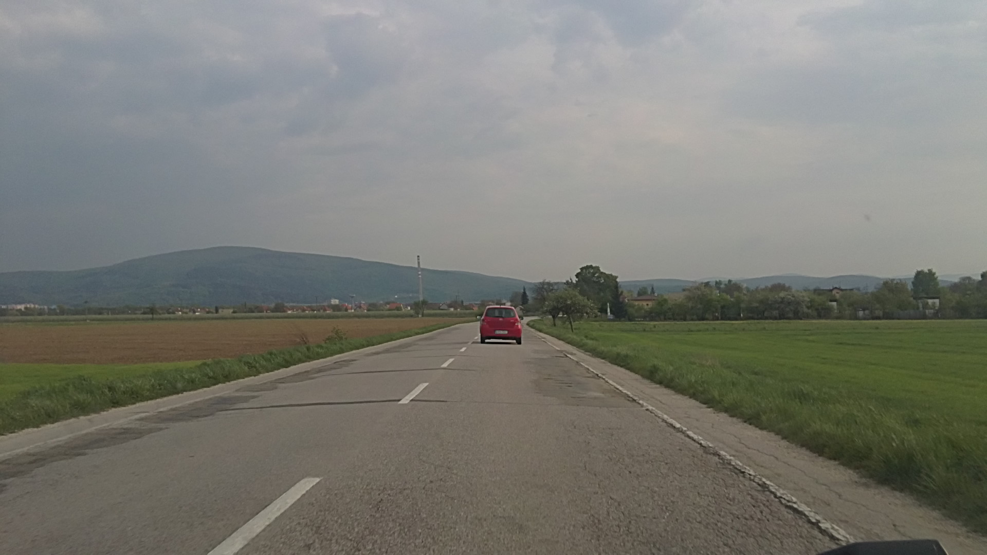 Route II/579 Partizanske, Slovakia